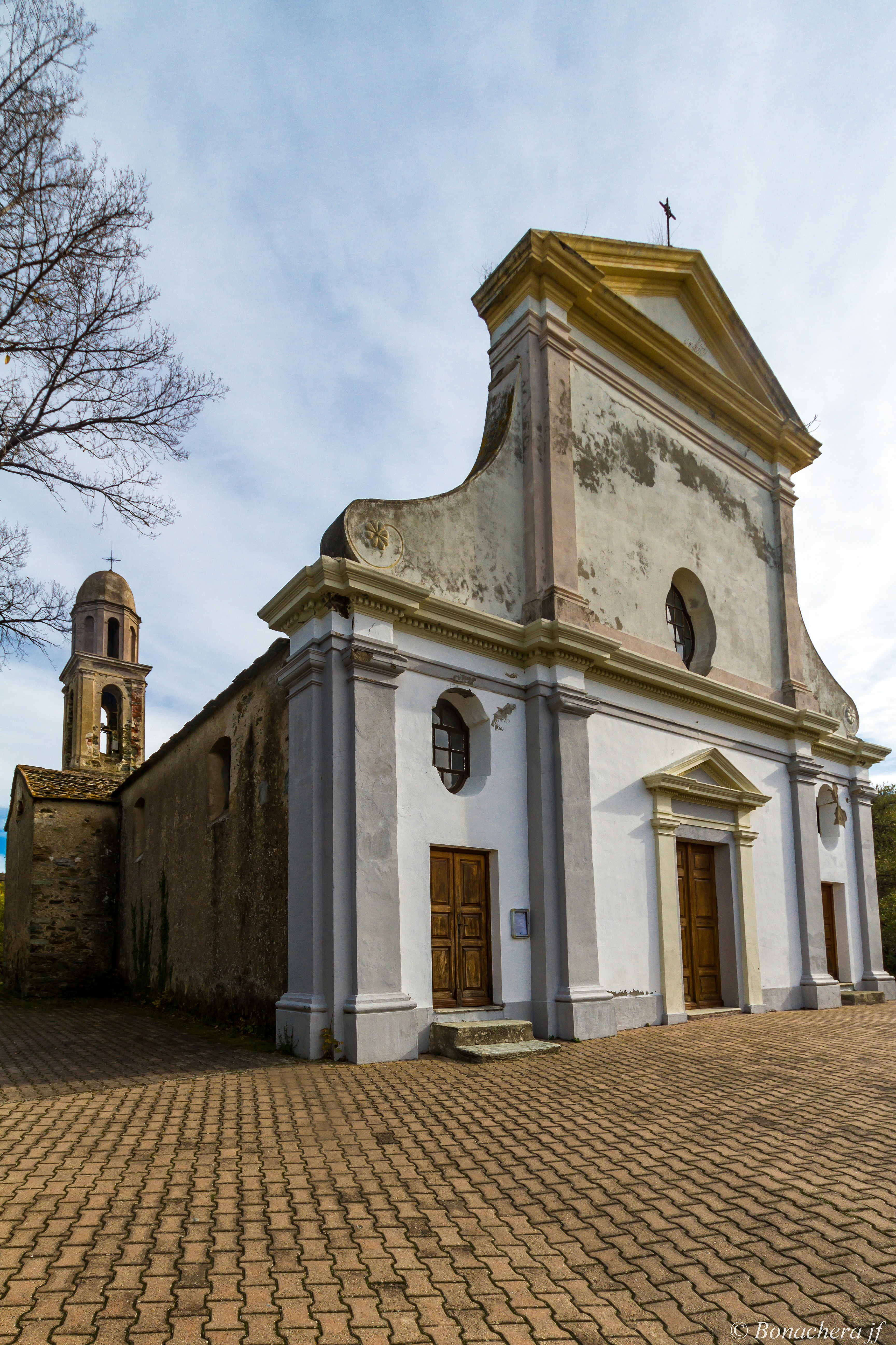 L'église San Paolo de Vallecalle